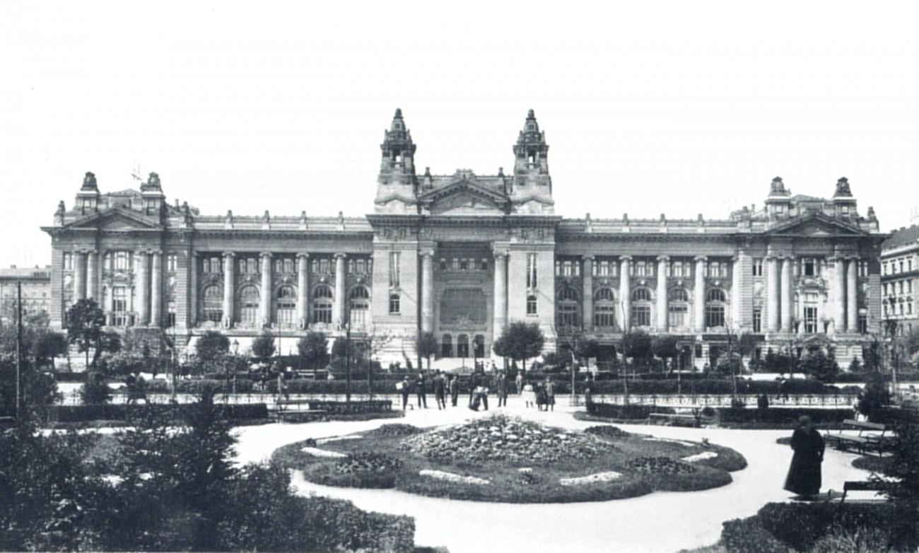 Stock Exchange Palace of Budapest in 1905